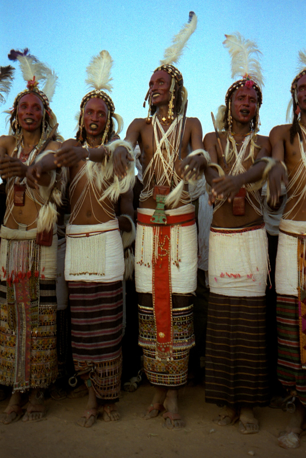 Participants in the Gerewol beauty contest, from the Wodaabe ethnic group. The eventual winner is the tall young man in the middle. Photographed 1997 in Niger.1997 #274-5 Gerewol